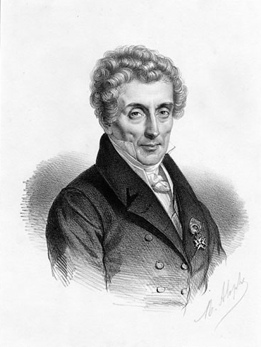 Luigi Cherubini (1760-1842) wearing the Legion d'Honneur